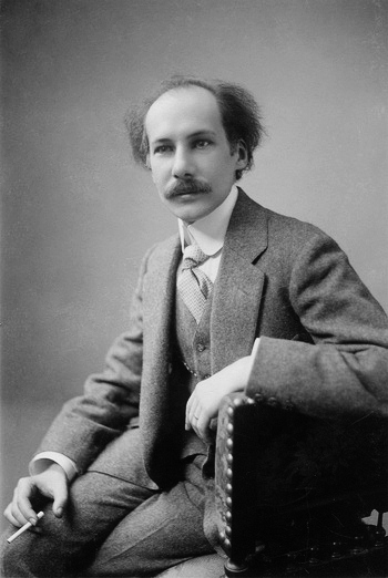 Russian novelist, poet and literary critic Andrei Bely (1880–1934). Brussels, 1912